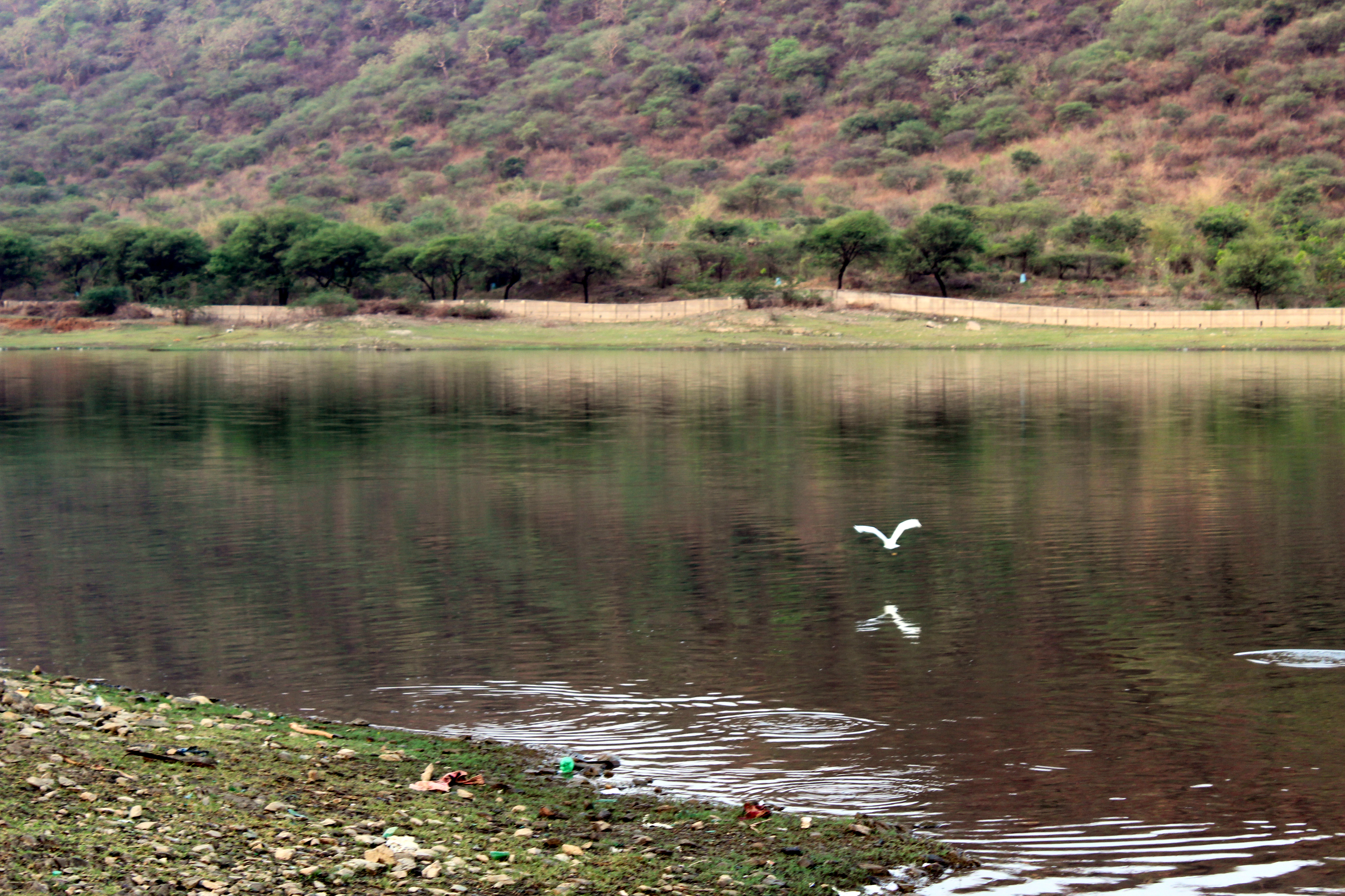 A bird flying over the beautiful Lake of Badi, Udaipur, Rajasthan!